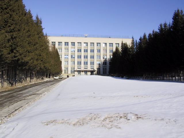 A photograph of the Budker Institute of Nuclear Physics in Akademgorodok, Russia.